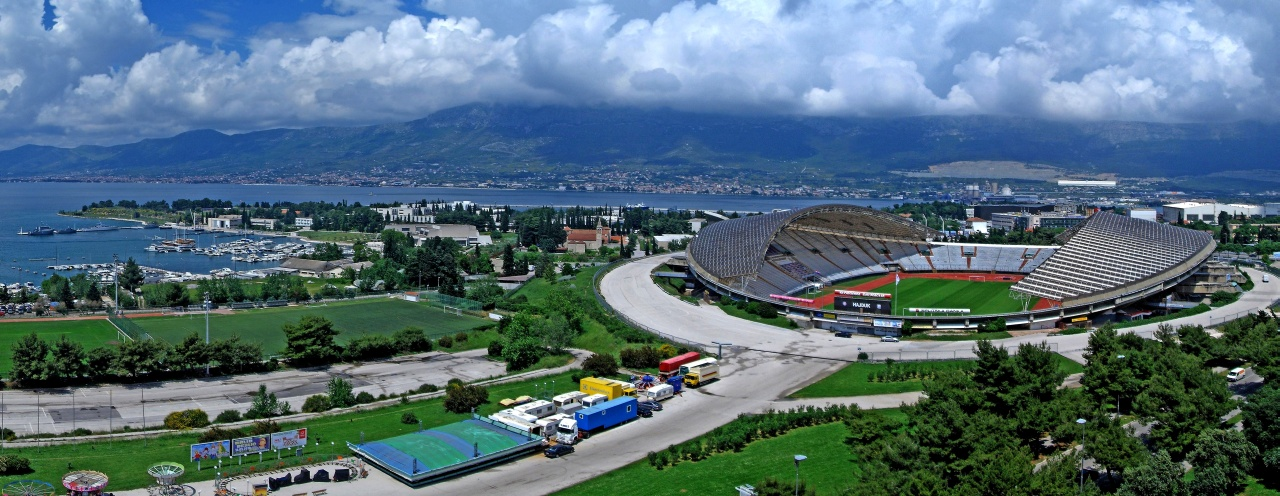 Poljud_panorama_1